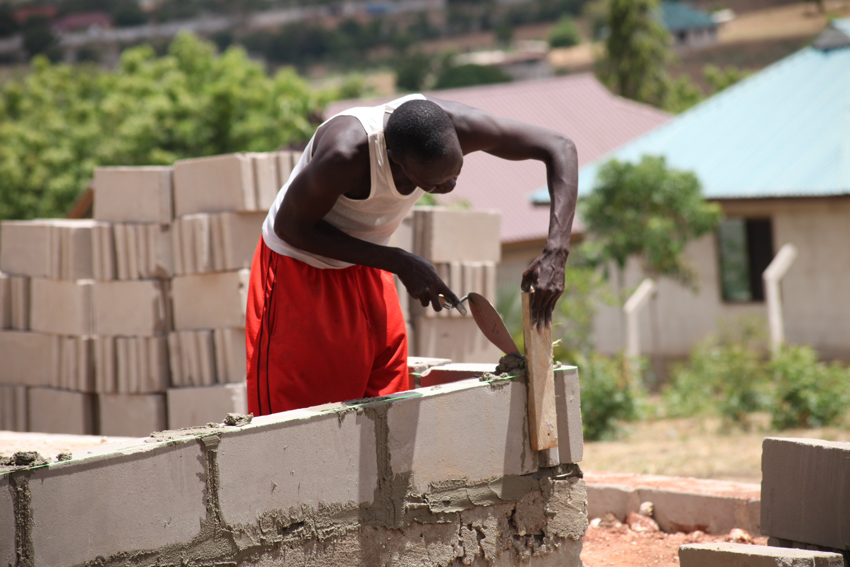 this is how we build the house through very heavy and strong bricks, This is an image of "African people at work" from Tanzania